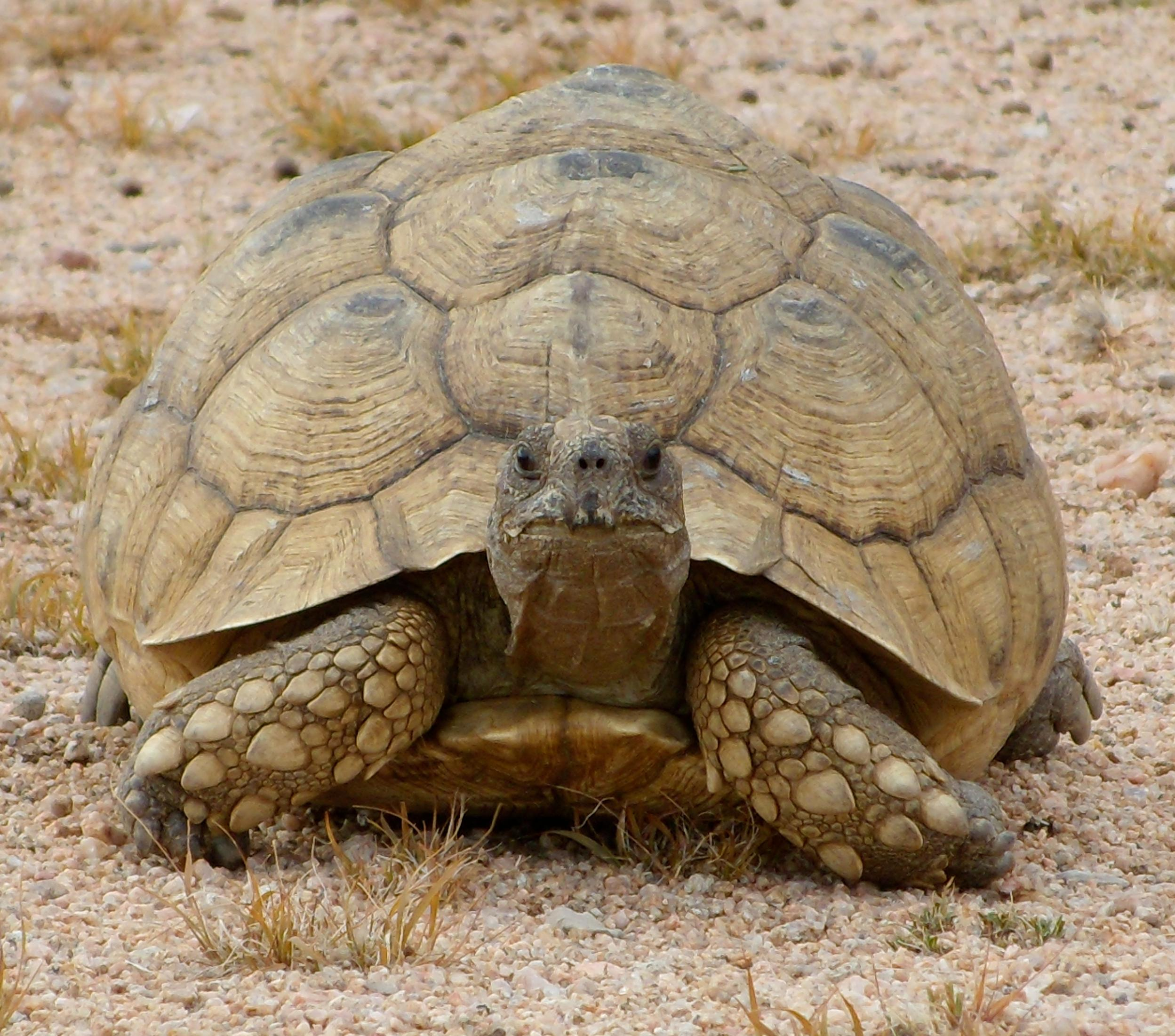 Leopard tortoise, near Usakos, Namibia